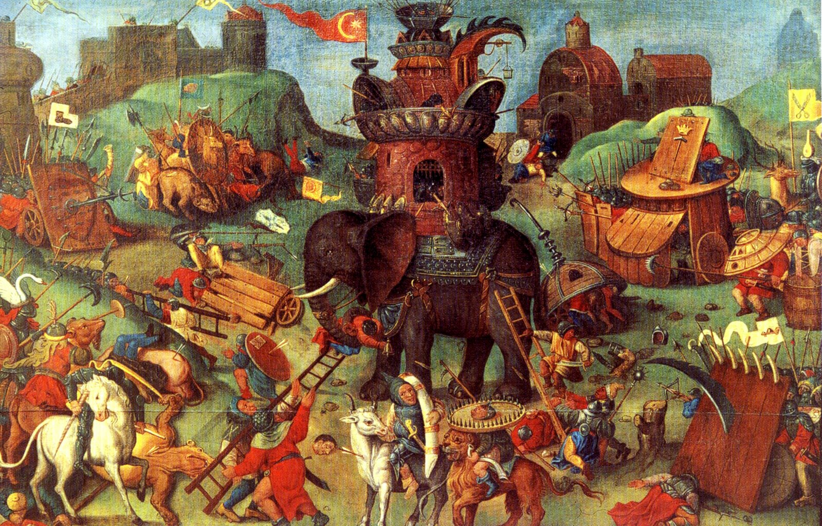 This painting is probably a copy after an engraving by Alaert du Hamel, which itself is presumably a copy after a lost work by Hieronymus Bosch.